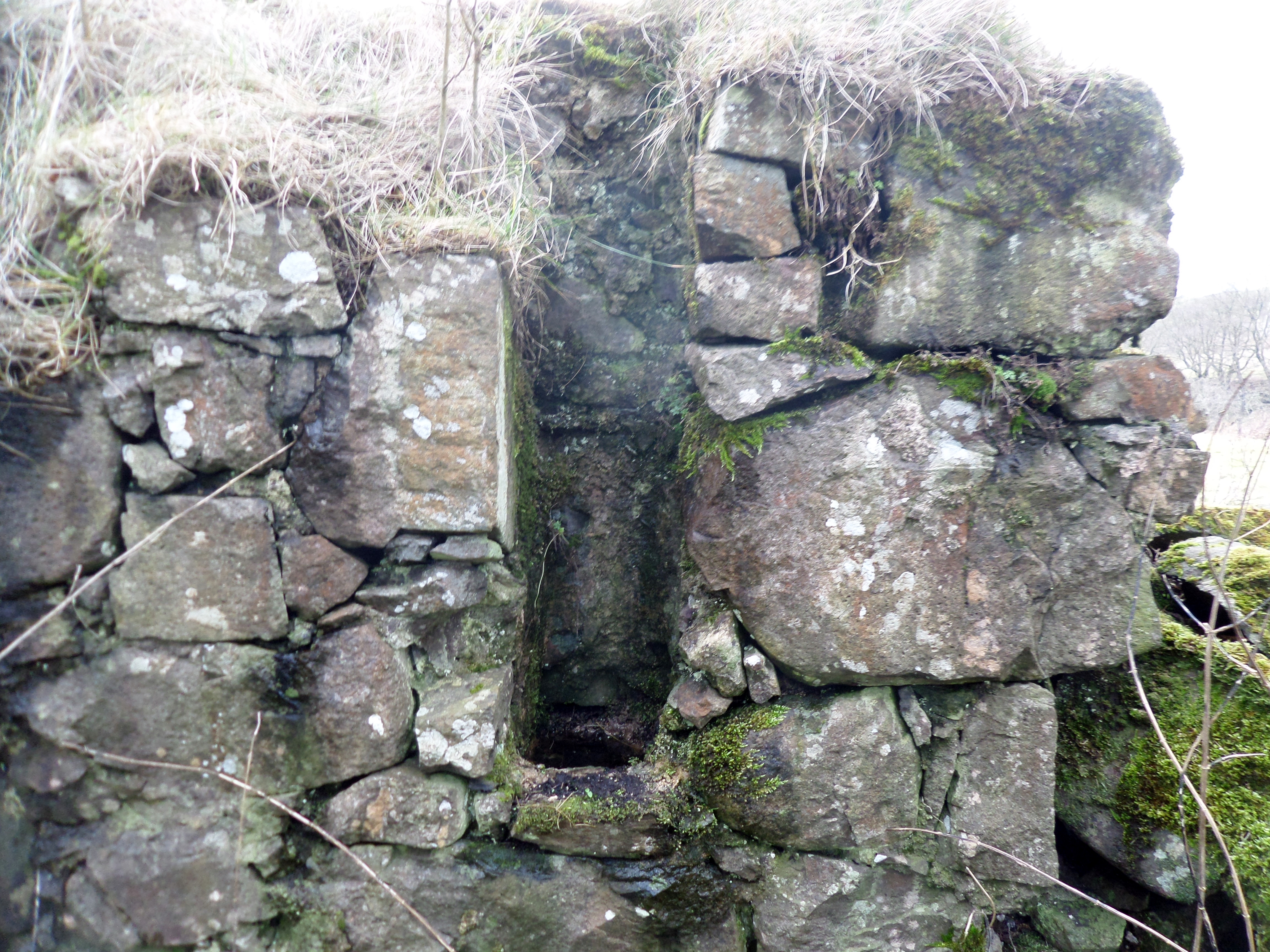 Feature at the Old Cowden Hall on the estate, Neilston, East Renfrewshire, Scotland.